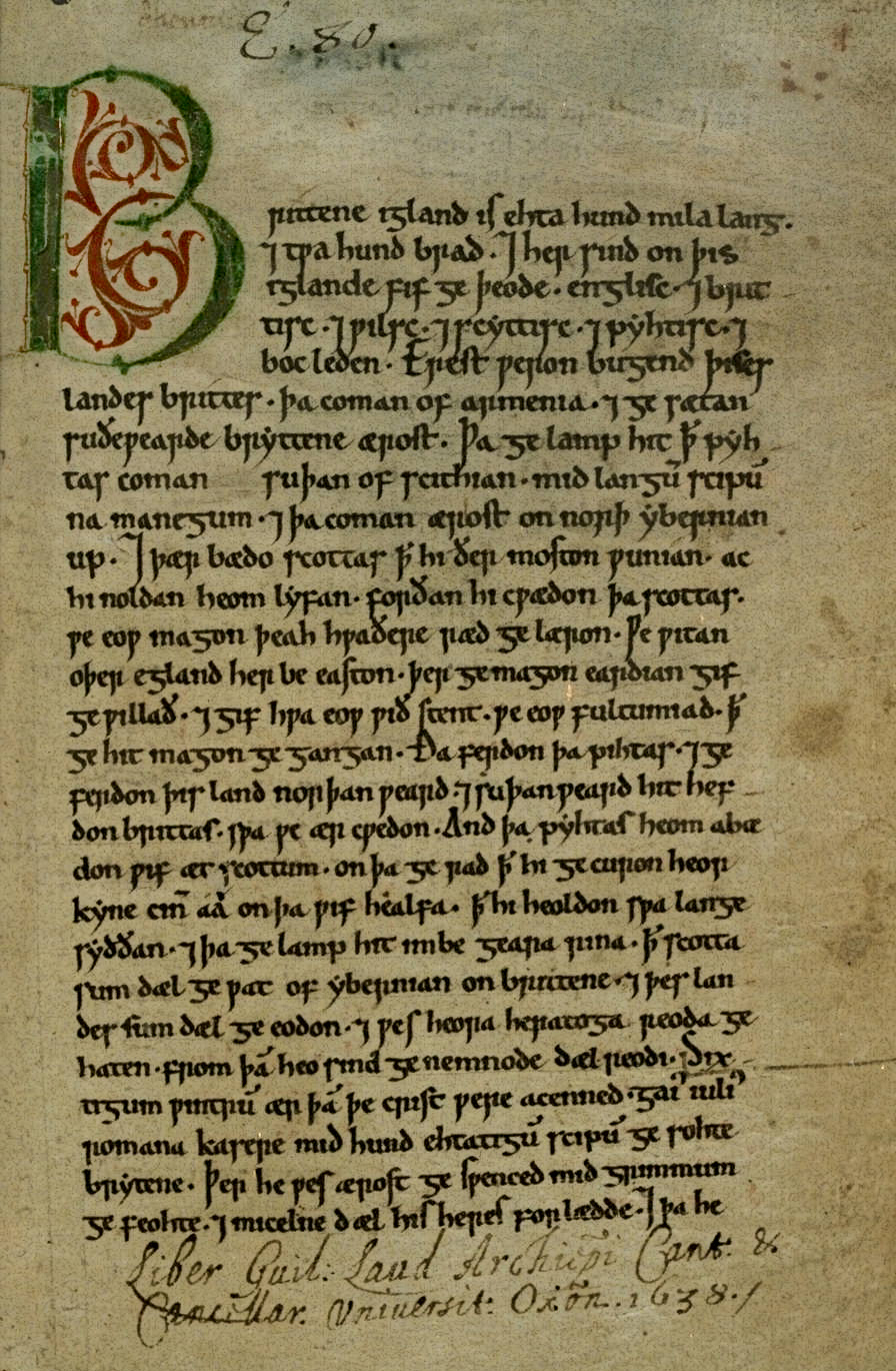 The initial page of the Peterborough Chronicle, marked secondarily by the librarian of the Laud collection. The manuscript is an autograph of the monastic scribes of Peterborough. The opening sections were likely scribed around 1638 (See document). The section displayed is prior to the First Continuation.